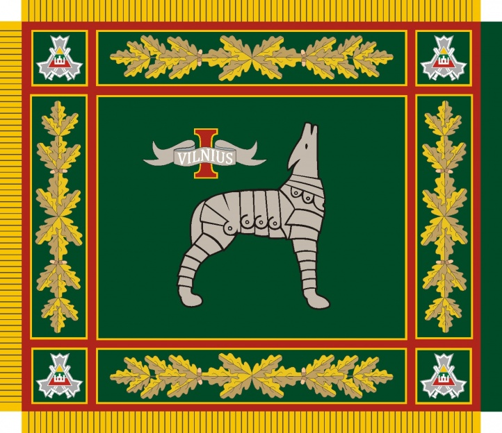 Flag of the Mechanised Infantry Brigade Iron Wolf (Lithuania).